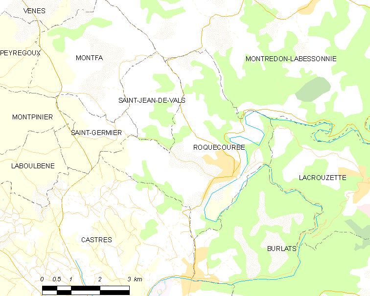 Map commune FR insee code 81227.png - Roquecourbe